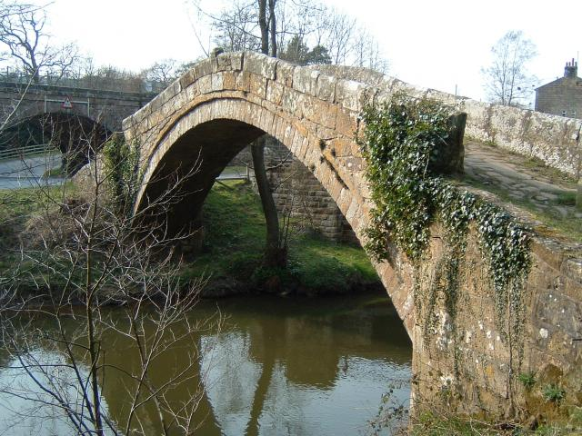 "Beggars Bridge" Glaisdale. This stone-built packhorse bridge was built across Glaisdale Beck in 1619 by Thomas Ferries the son of a local moorland farmer. Also in the picture is the Railway Bridge and Road which are all squeezed into a tight corner where the beck meets the River Esk.